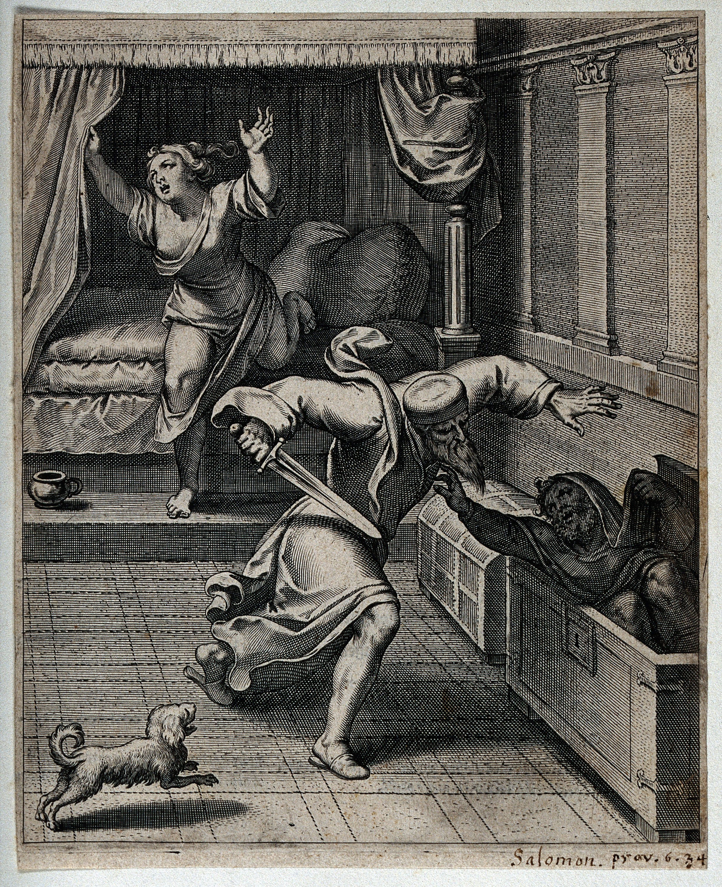 A furious cuckold rushes at his rival with a sword. Engraving. Iconographic Collections